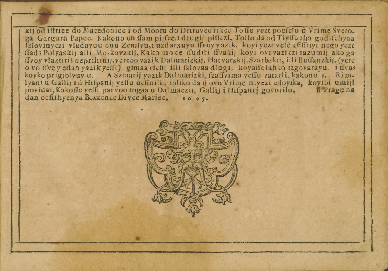 Preface for the 2nd efition of 5-lingual dictionary by Fausto Veranzio